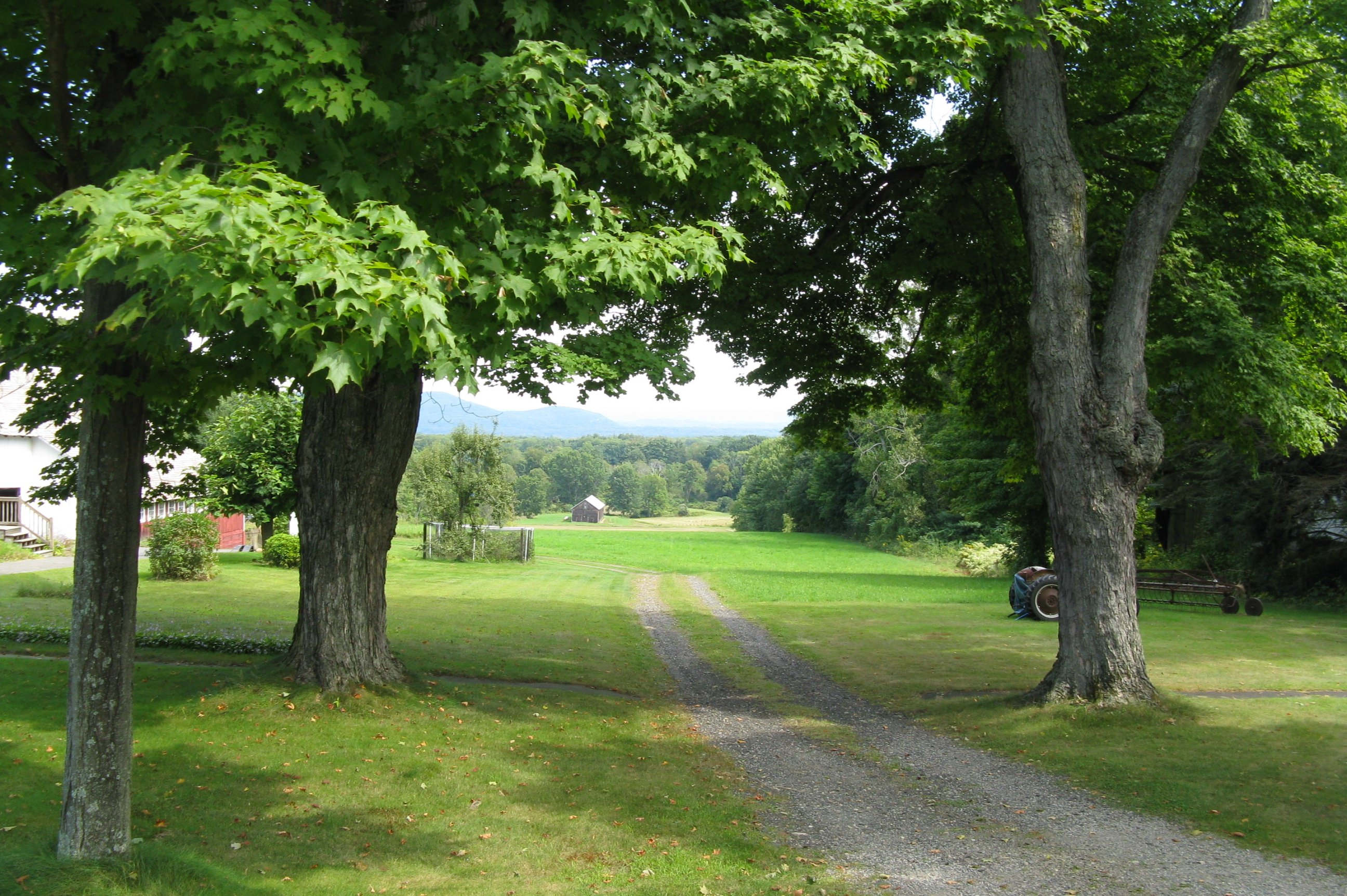 View of Connecticut River Valley, Whately Massachusetts